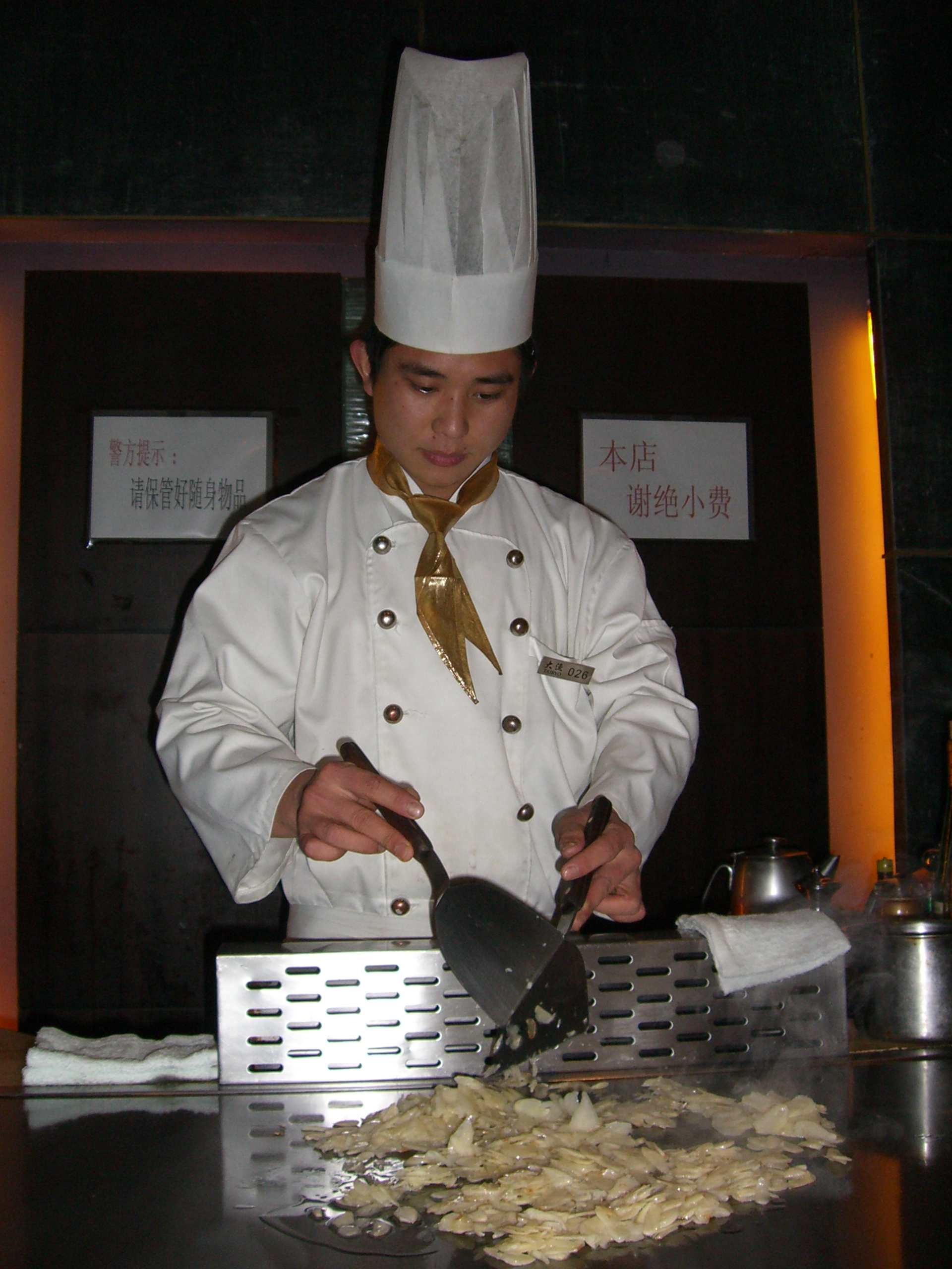 Cuisine of Japan